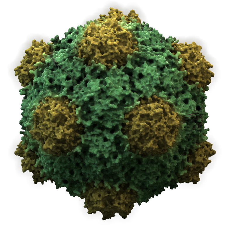 Structure of the icosahedral Cowpea mosaic virus (CPMV) based on PDB ID 2BFU.